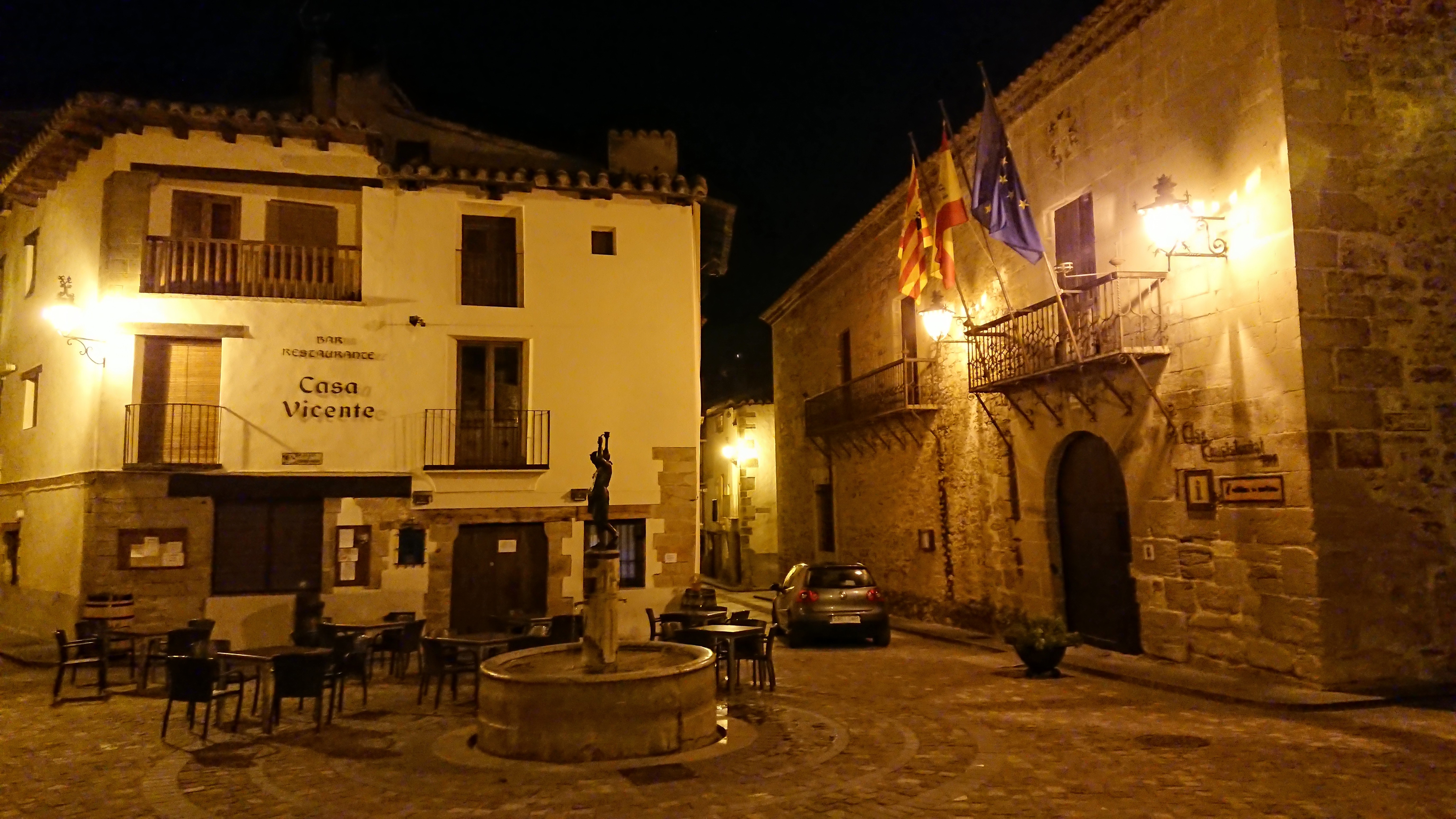 Rubielos de Mora, Teruel (Spain)